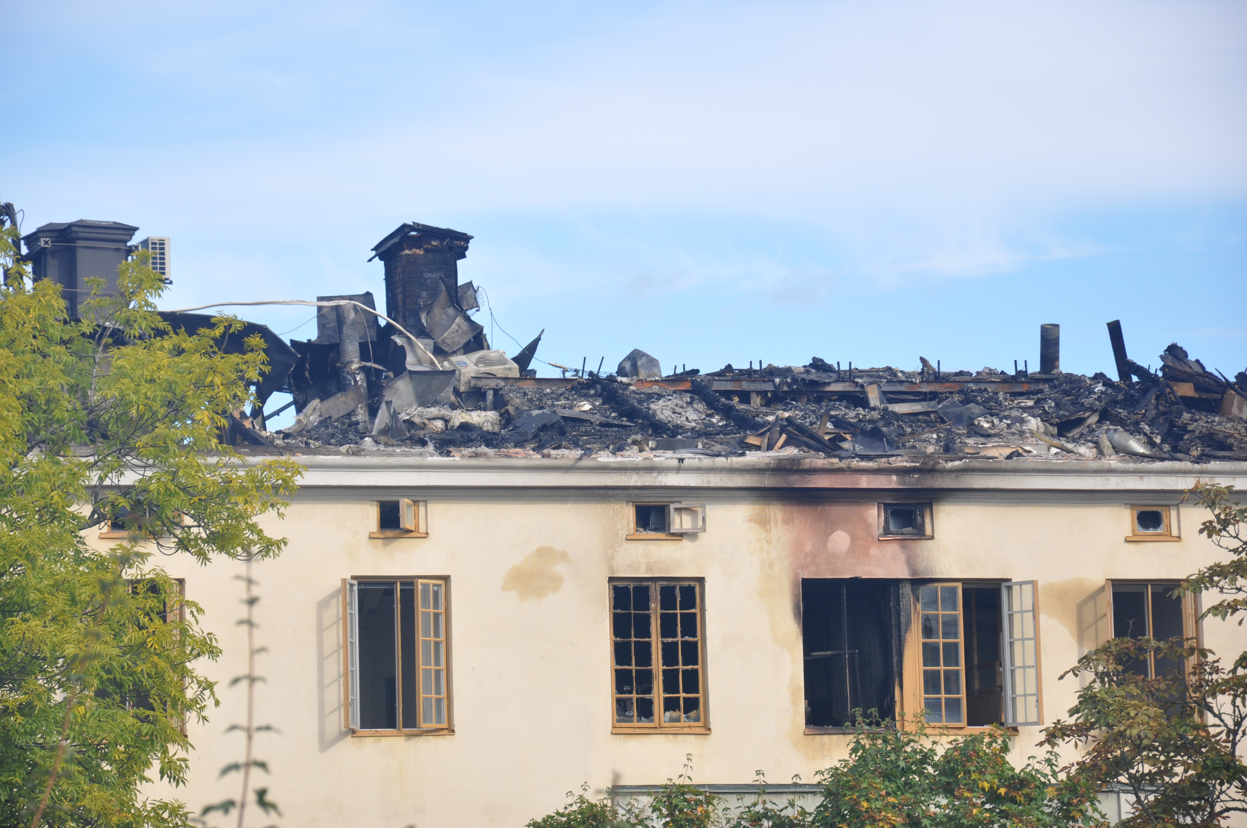 The Båtsmanskasern on Skeppsholmen, Stockholm, shortly after the fire which ravaged the building between September 21 and September 22, 2016.